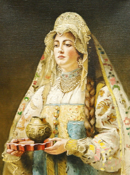 "Cup of honey drink" (mead) (this is not the image of tsarina Agafya)